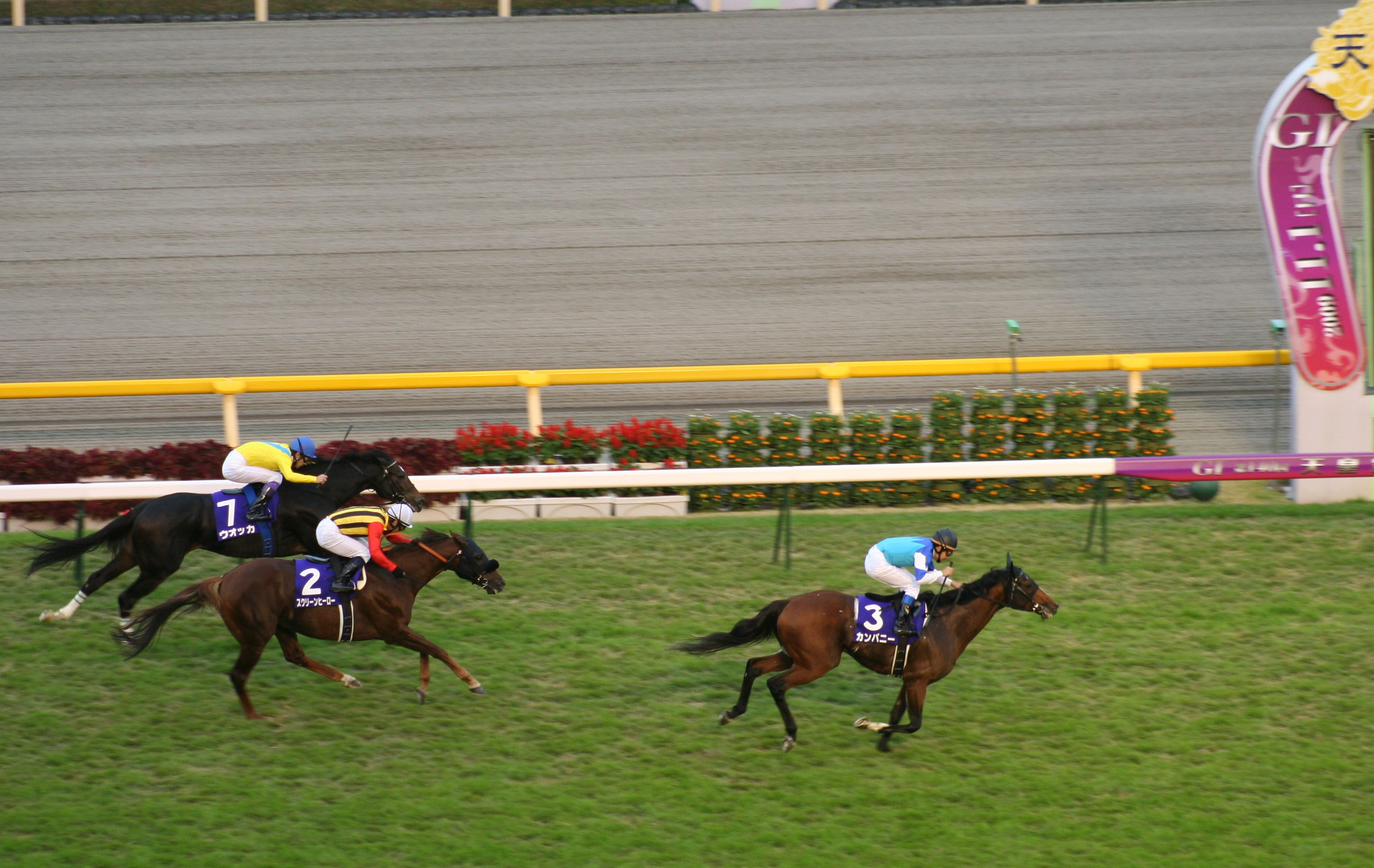 The 140th Tenno Sho (Tokyo Racecourse)